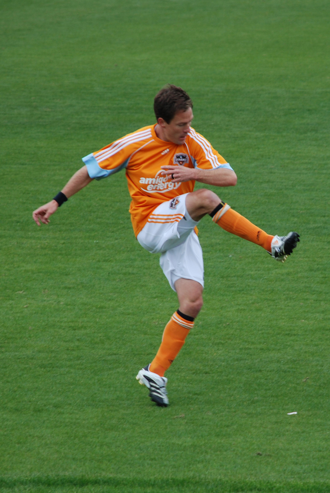 Scrimmage – Houston vs. Montreal @ Robertson Stadium